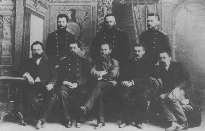 Ivan Pavlov and his doctoral students at the Military Medical Academy in St. Petersburg (1891). Sitting, from left to right: Ginzburg, Burzhinsky, Pavlov, Kamensky, Sabashnikov. Standing: Shulgin, Osvyanitsky, D. L. Glinsky.